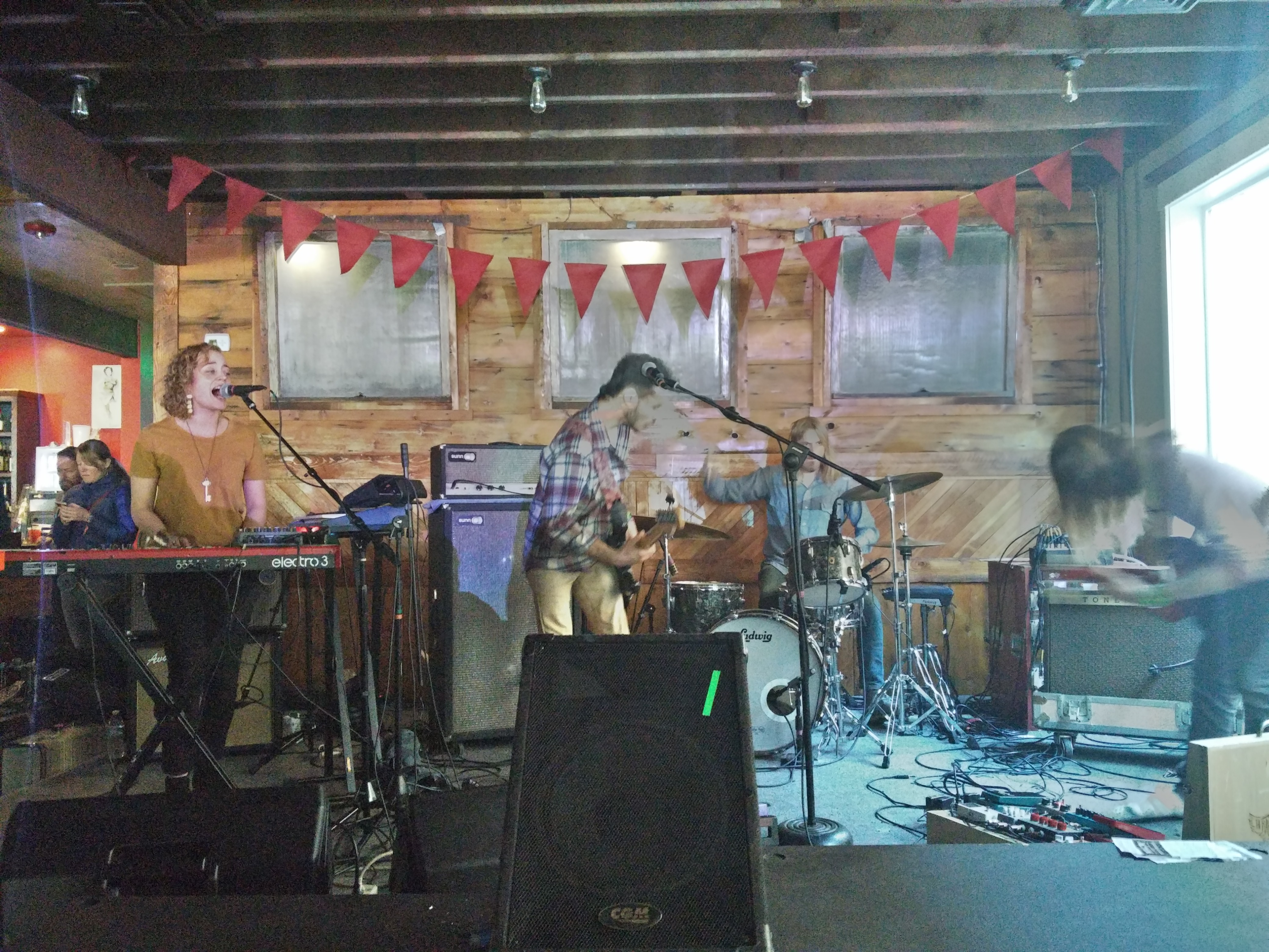 The Raven and The Writing Desk performs at The Olympic Venue at Treefort 2016.